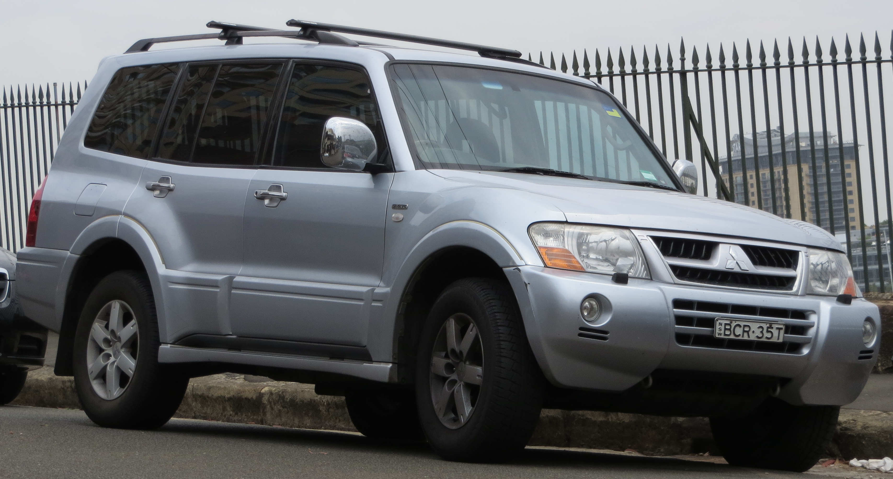 2004 Mitsubishi Pajero (NP) Exceed wagon. Photographed in Millers Point, New South Wales, Australia.